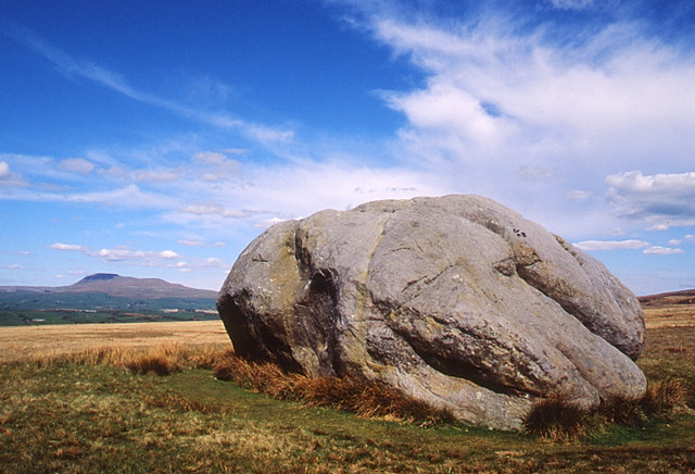 The Great Stone of Fourstones, near High Bentham, near to Lowgill, Lancashire, England. Behind the stone is Ingleborough.